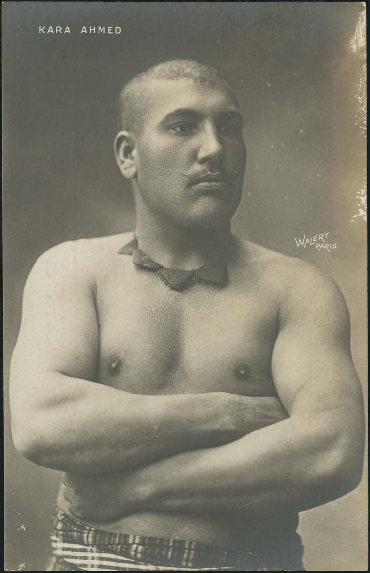 Kara Ahmed (1870-1902)